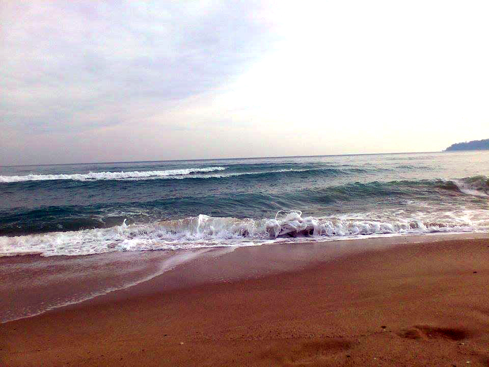 The waves of Black sea. Varna beach - february 2015